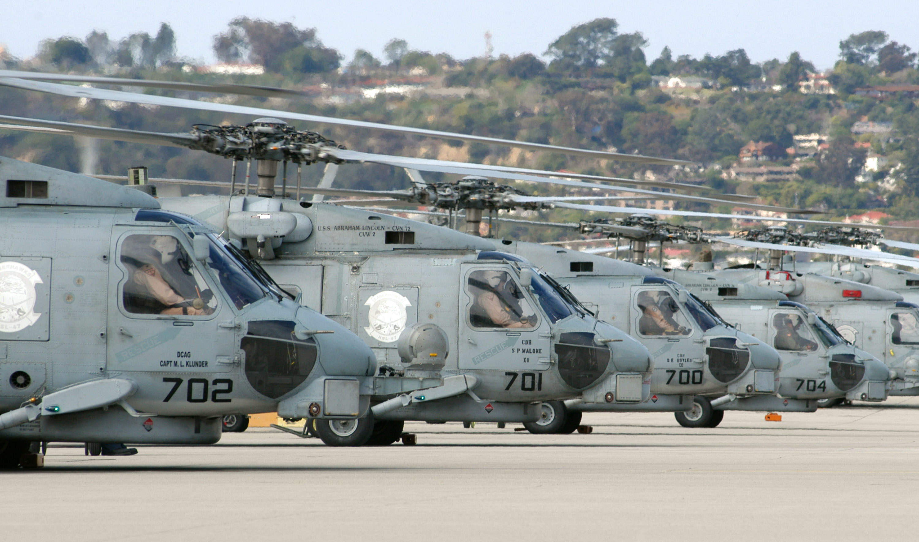 HSL-47 Squadron preparing to fly off for an exercise